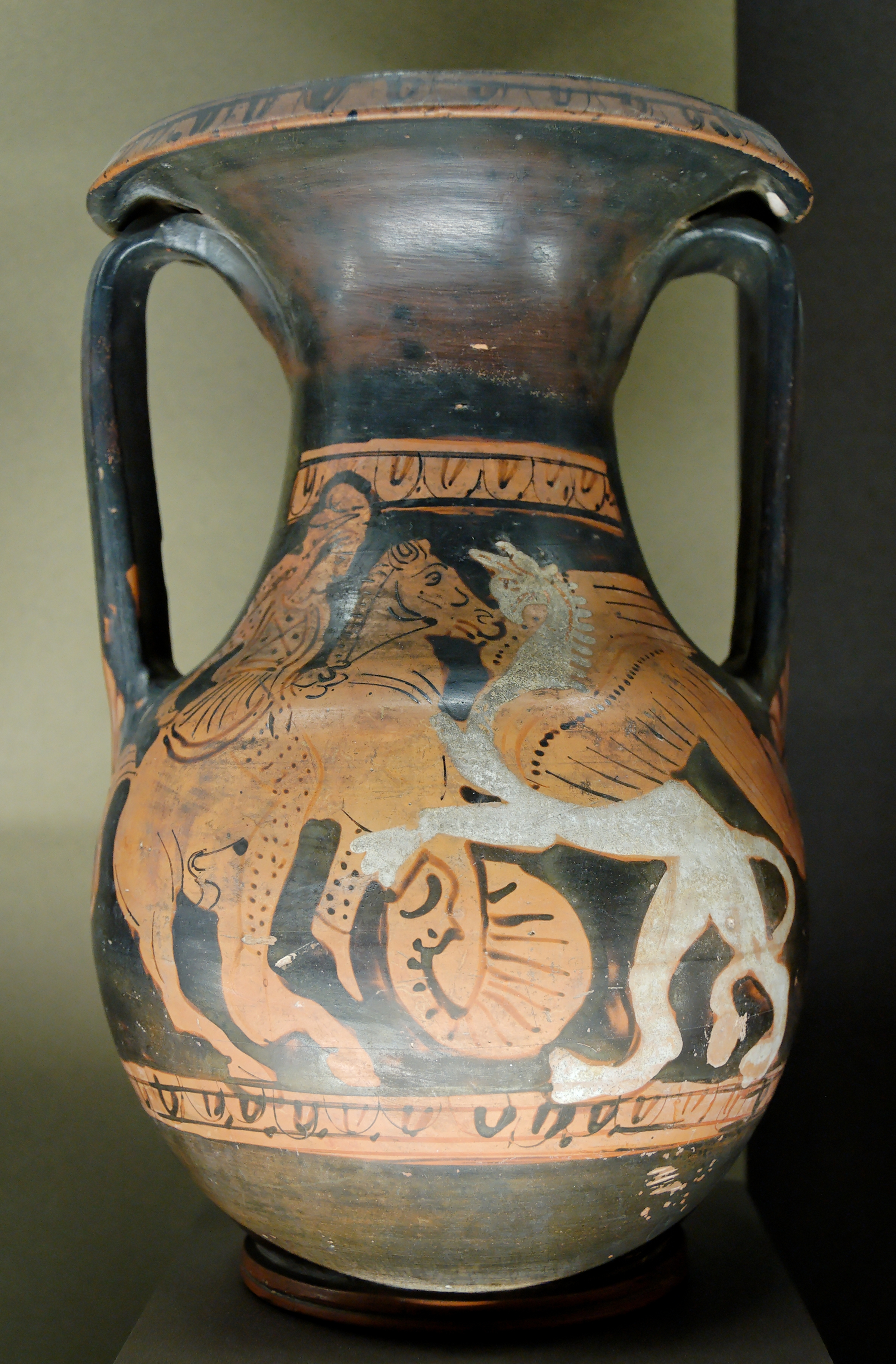 Arimaspus fighting a griffin. Attic red-figure pelike in the Kerch style, ca. 375–350 BC. From Italy (?).